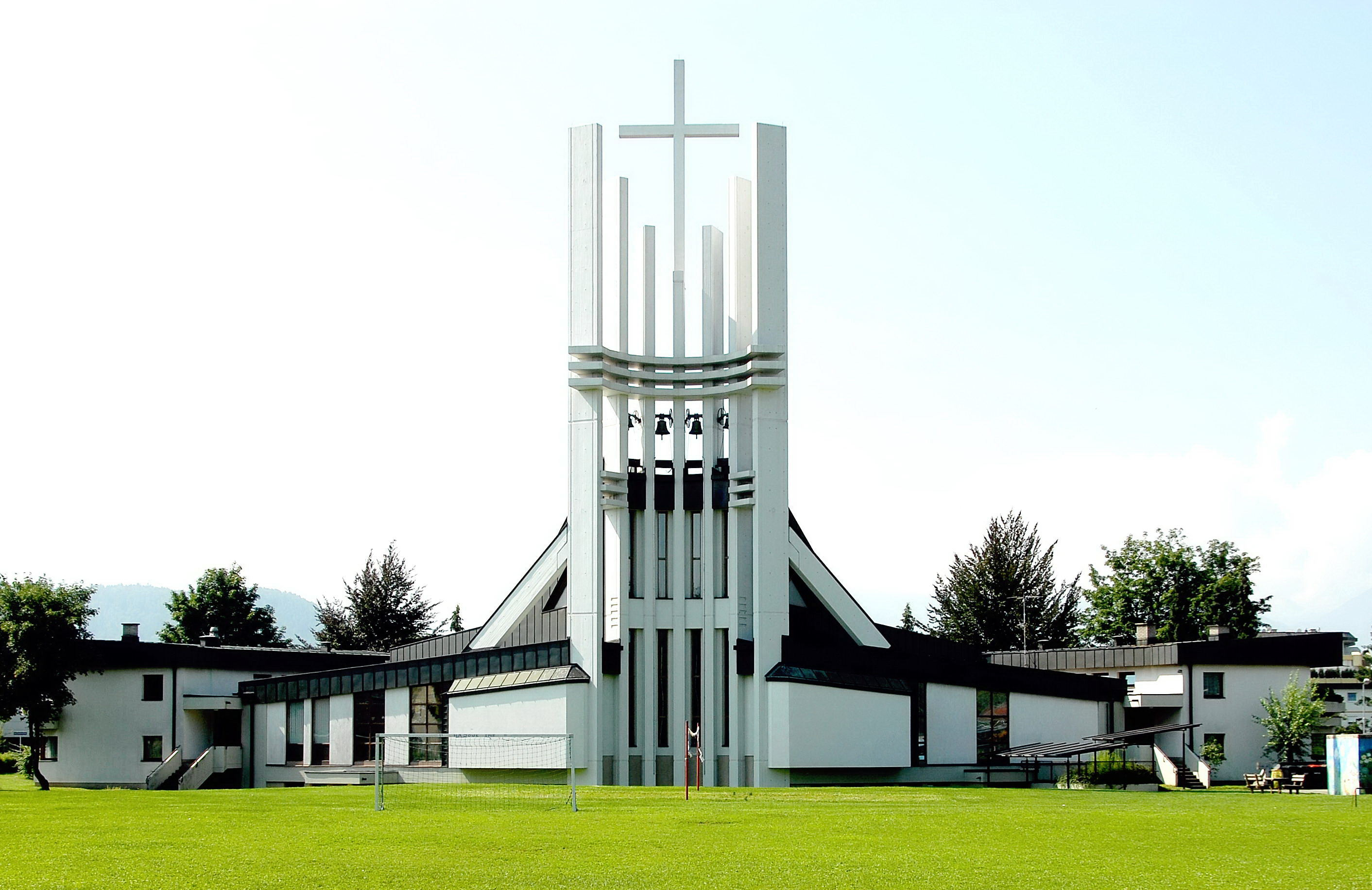 View from north at the Don Bosco church in the 12th district "Saint Martin" of Klagenfurt, Carinthia, Austria